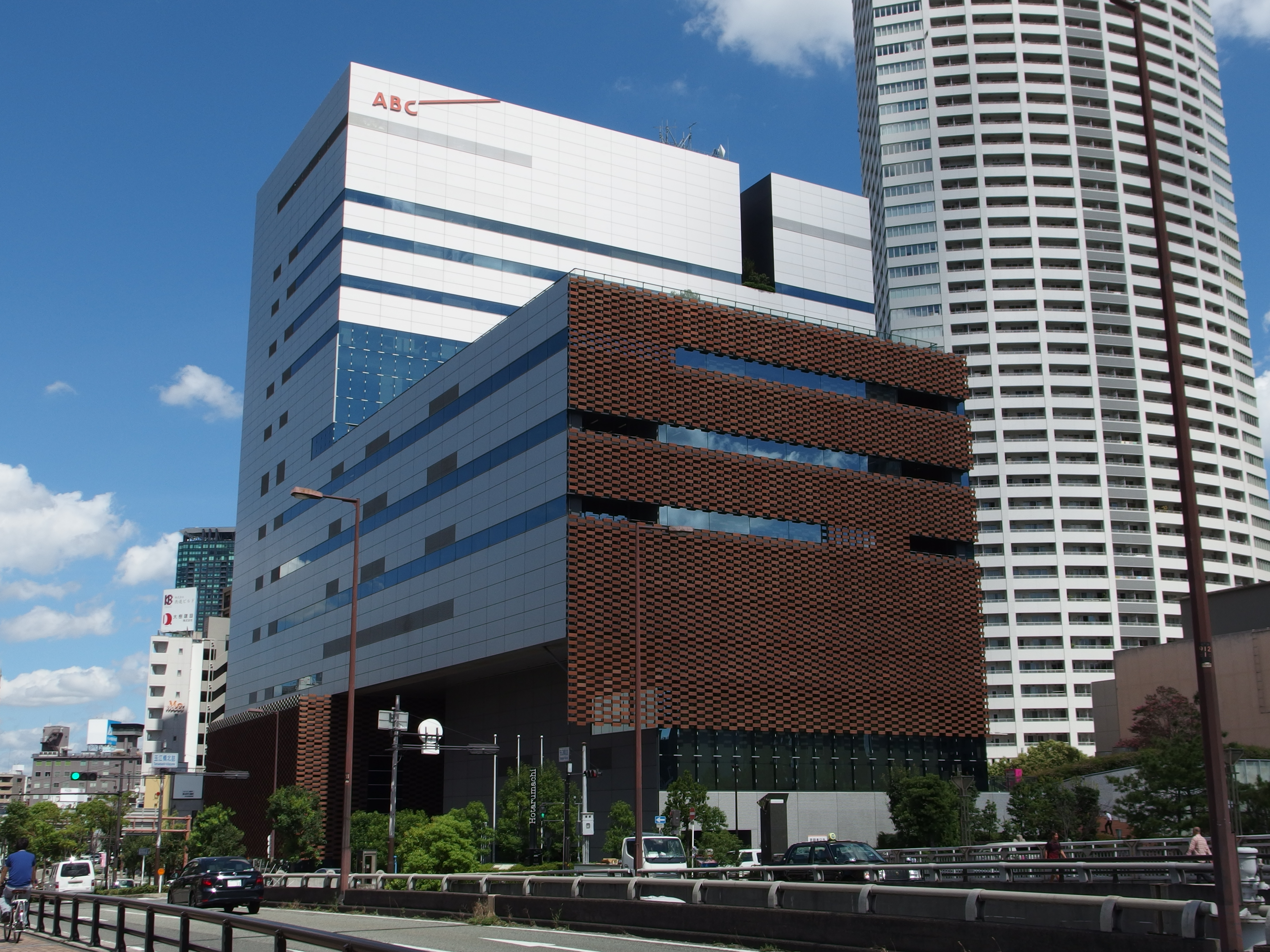 Asahi Broadcasting Corporation in Osaka, Osaka Prefecture, Japan.